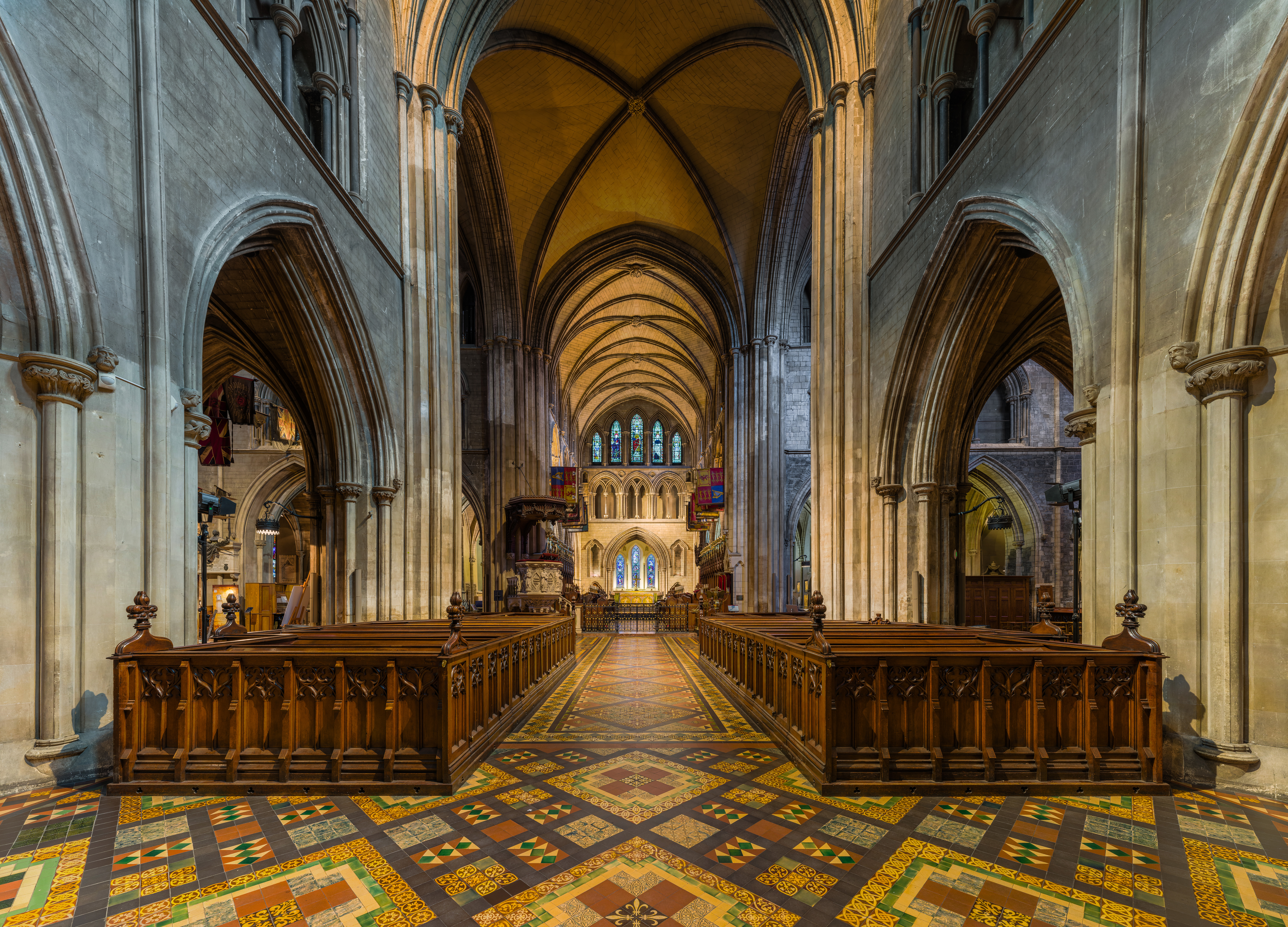 The nave of St Patrick's Cathedral in Dublin, Ireland, looking towards the choir.